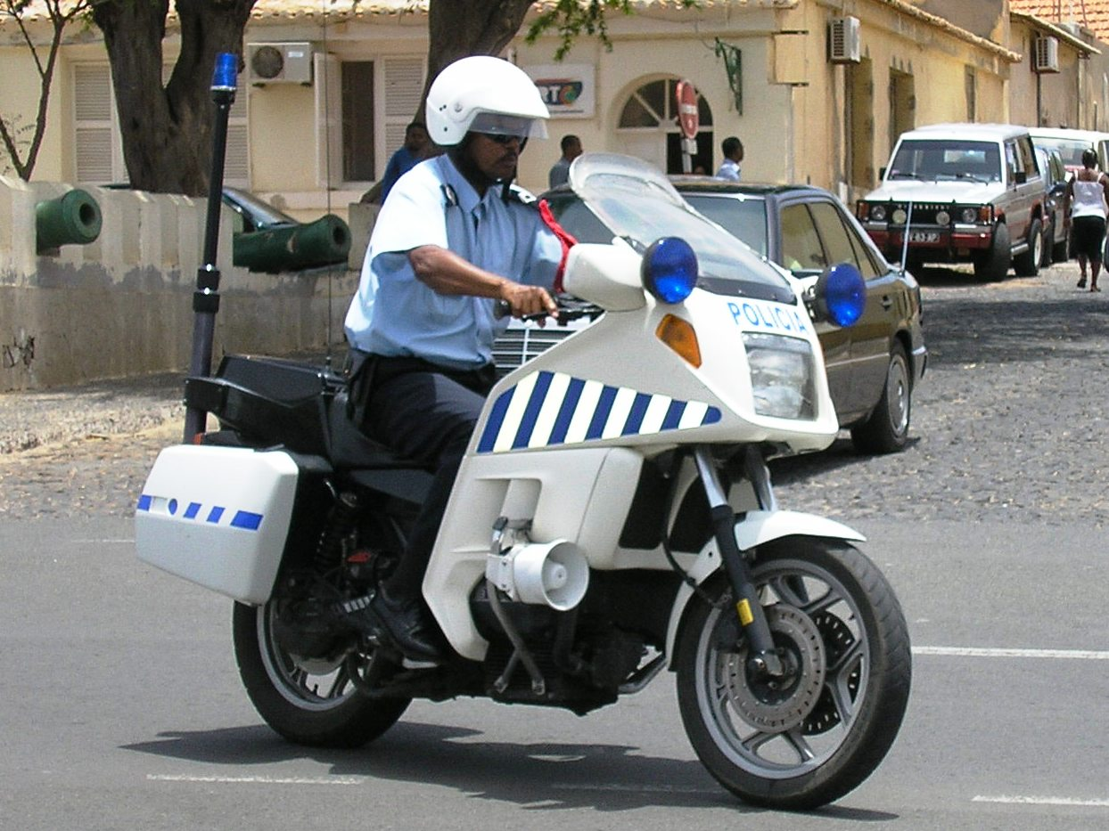 Police motorcycle in Mindelo, São Vicente island, Cape Verde